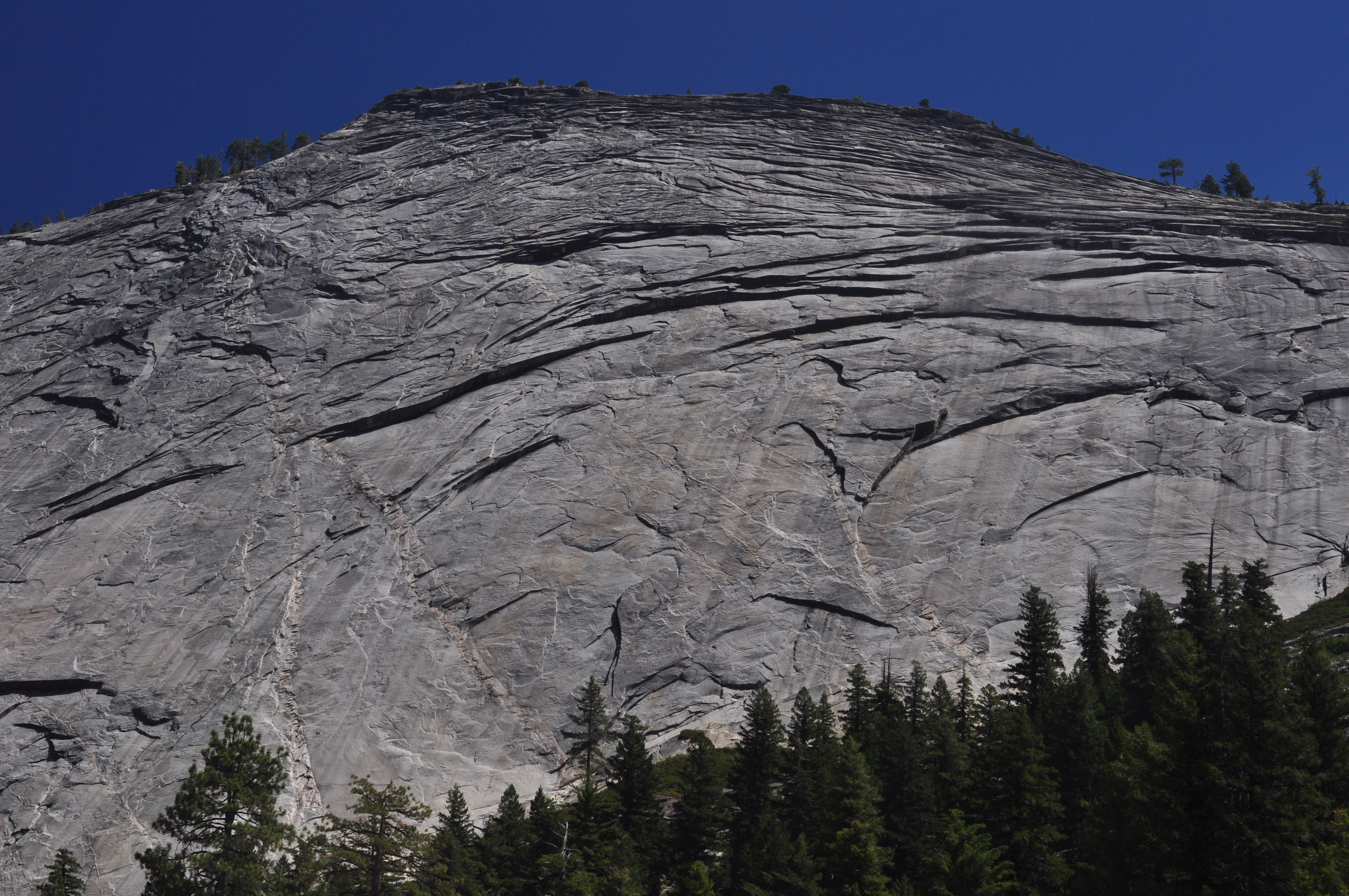 Bunnell Point, cliff face of granite — in Yosemite National Park. In Yosemite National Park.